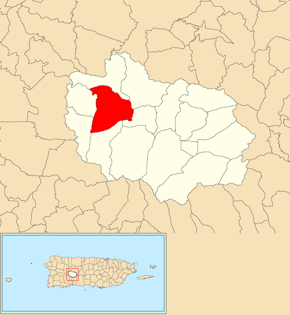 Yahuecas, Adjuntas, Puerto Rico locator map